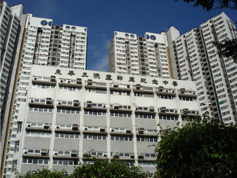 TWGHs Lo Kon Ting Memorial College is located at Long Ping Estate, Yuen Long, New Territories, Hong Kong.